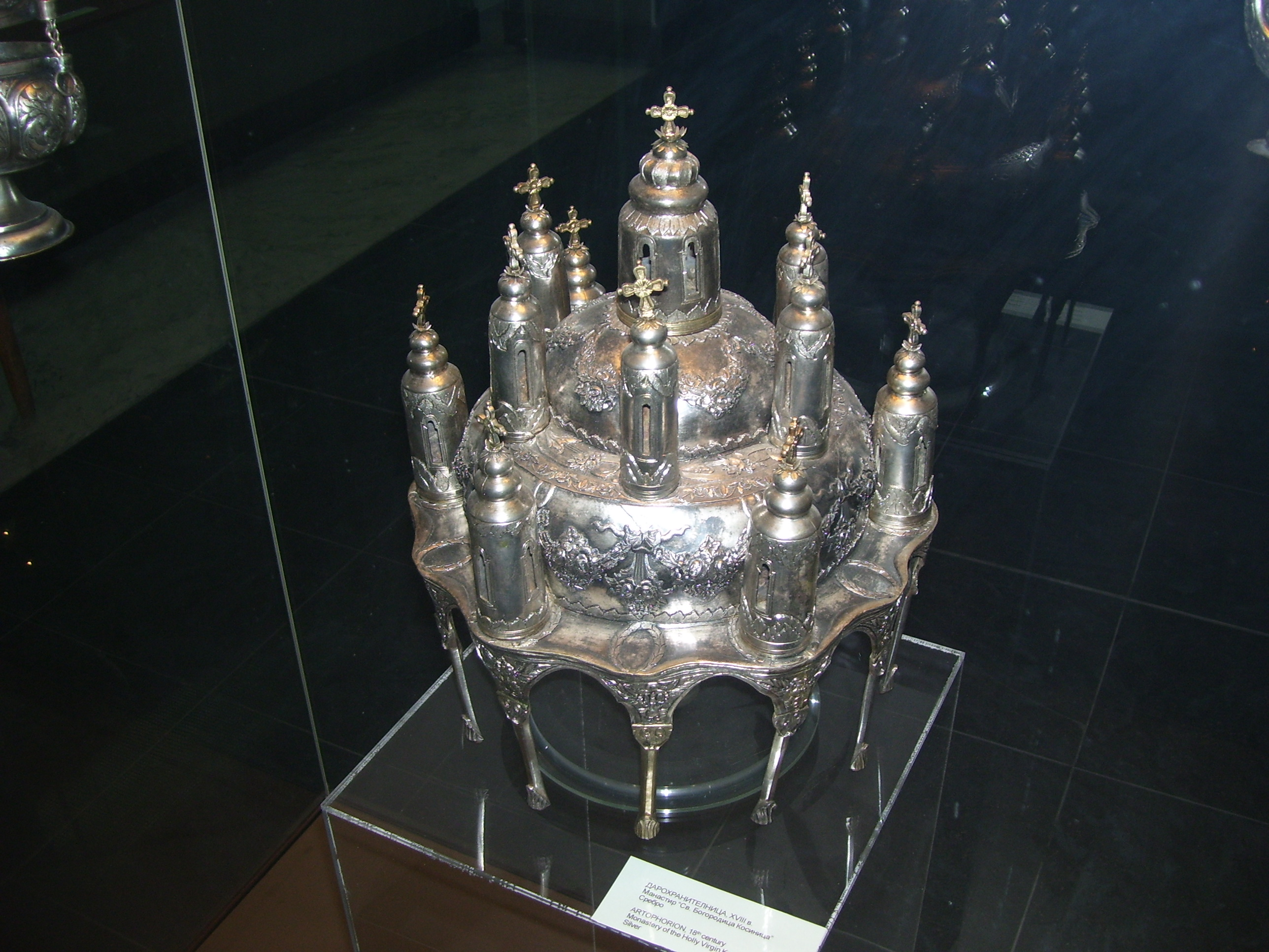 Greek silver artophorion originated from the Panagia Ekosifinissa Monastery (Greece) (Ikosifinisa or Kushnitsa Monastery), captured by the Bulgarian occupation army during the Second Bulgarian Occupation of Eastern Macedonia (1916-1918, World War I) and now on display at the National Historical Museum of Bulgaria, 18 C, NHMB